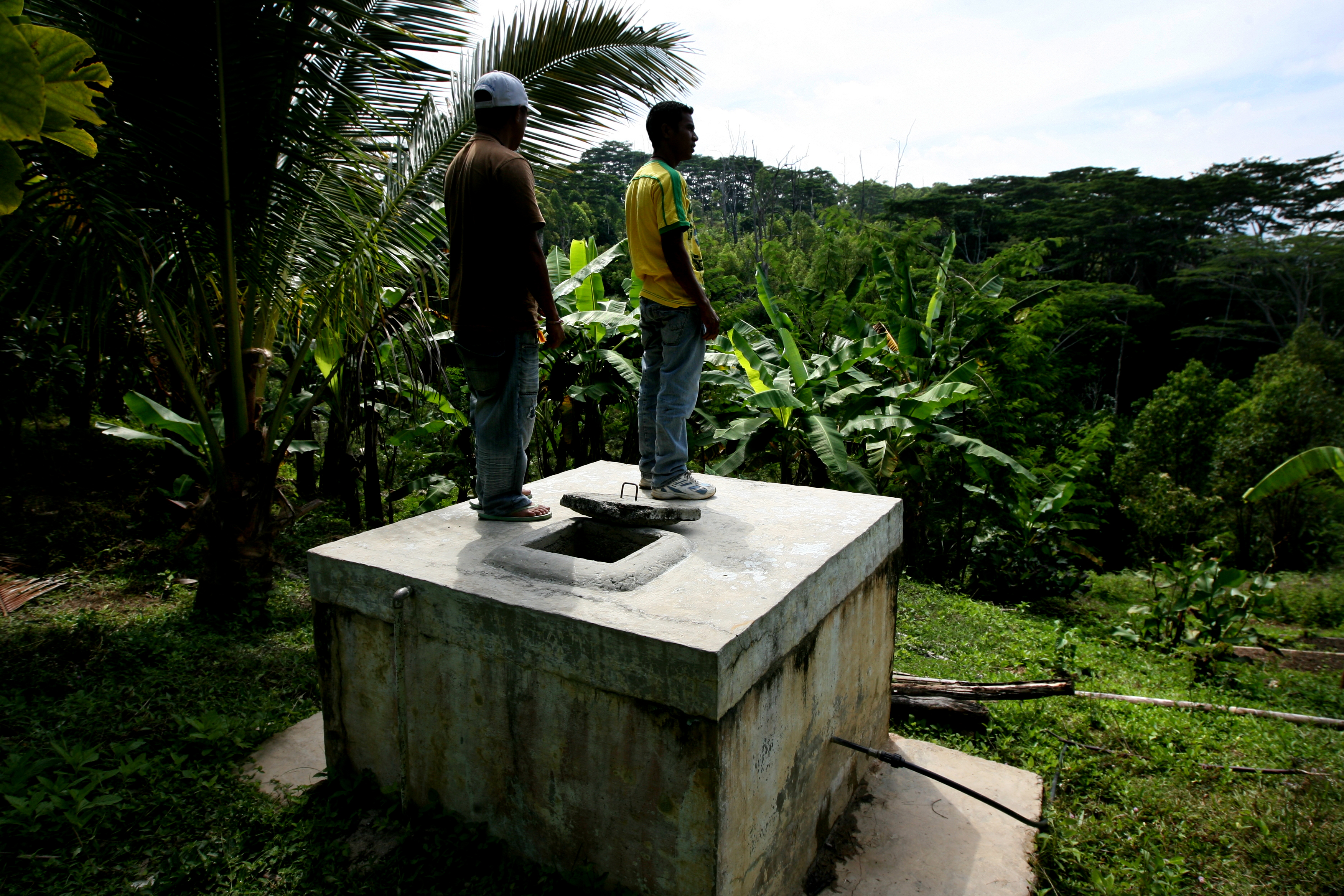 Father and local toilet salesman, Antonia dos Santos in his home village of Lisadila. Antonia creates concrete toilets with the use of a mould and sells them at the market place in Maubara and to neighbouring villages. On his patch he grows chillis, bananas and coffee and germinates plant stocks which he also use as a source of income. Photograph shows men atop the watertank overlooking the property. Photograph by Dean Sewell/Oculi/Agence Vu for WaterAid. Photograph taken on the 5th August 2010. To request copyright use and access to hi-res versions of this photo